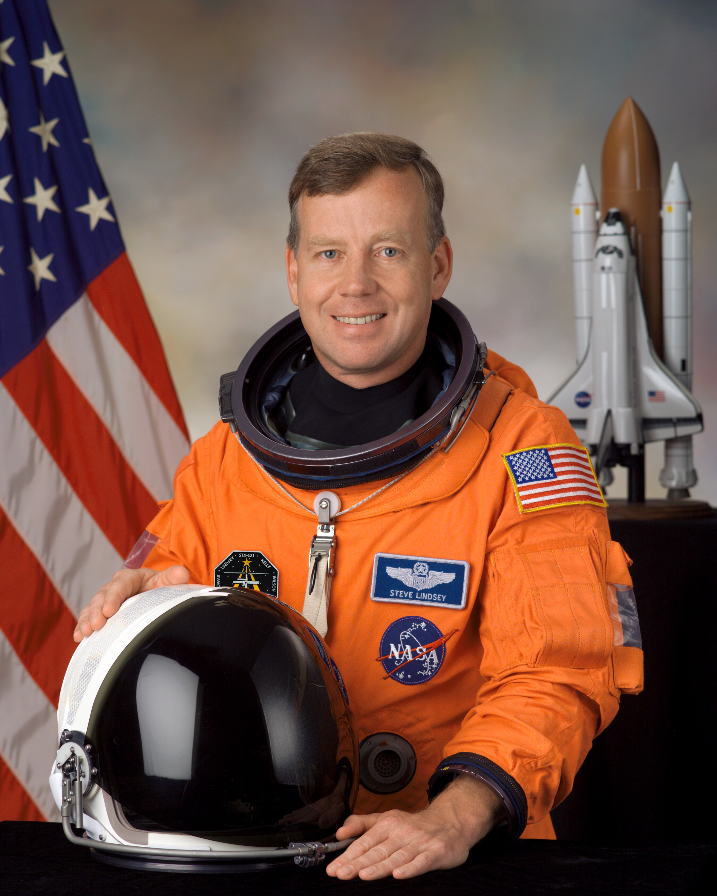 Astronaut Steven W. Lindsey, commander.